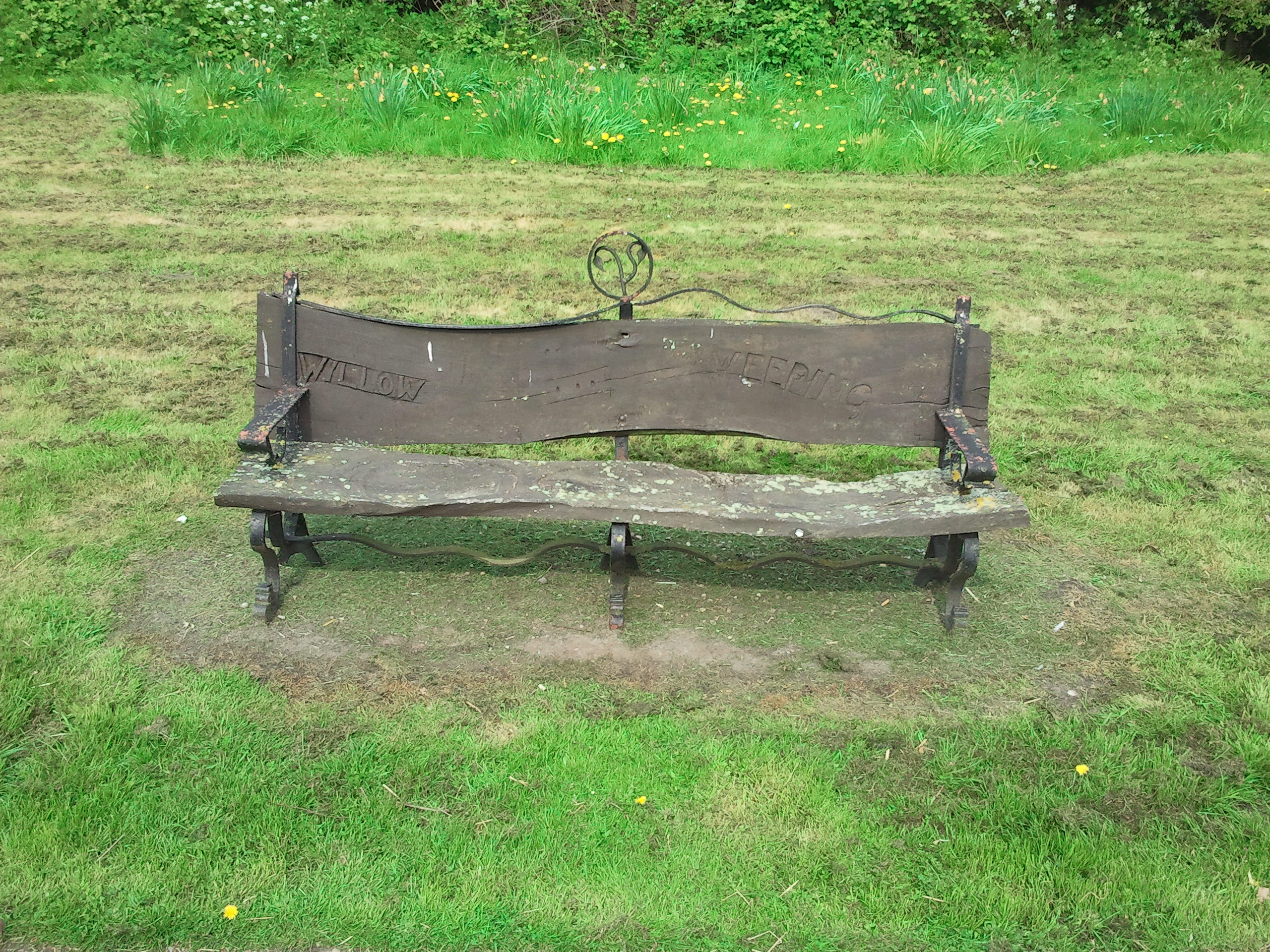 Bench inscribed 'Willow Weeping', for many years a landmark in Skellingthorpe, but recently dismantled.